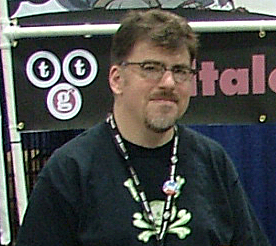 Telltale Games designer and former LucasArts employee Chuck Jordan